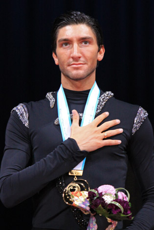 2009 Grand Prix of Figure Skating Final - Evan Lysacek